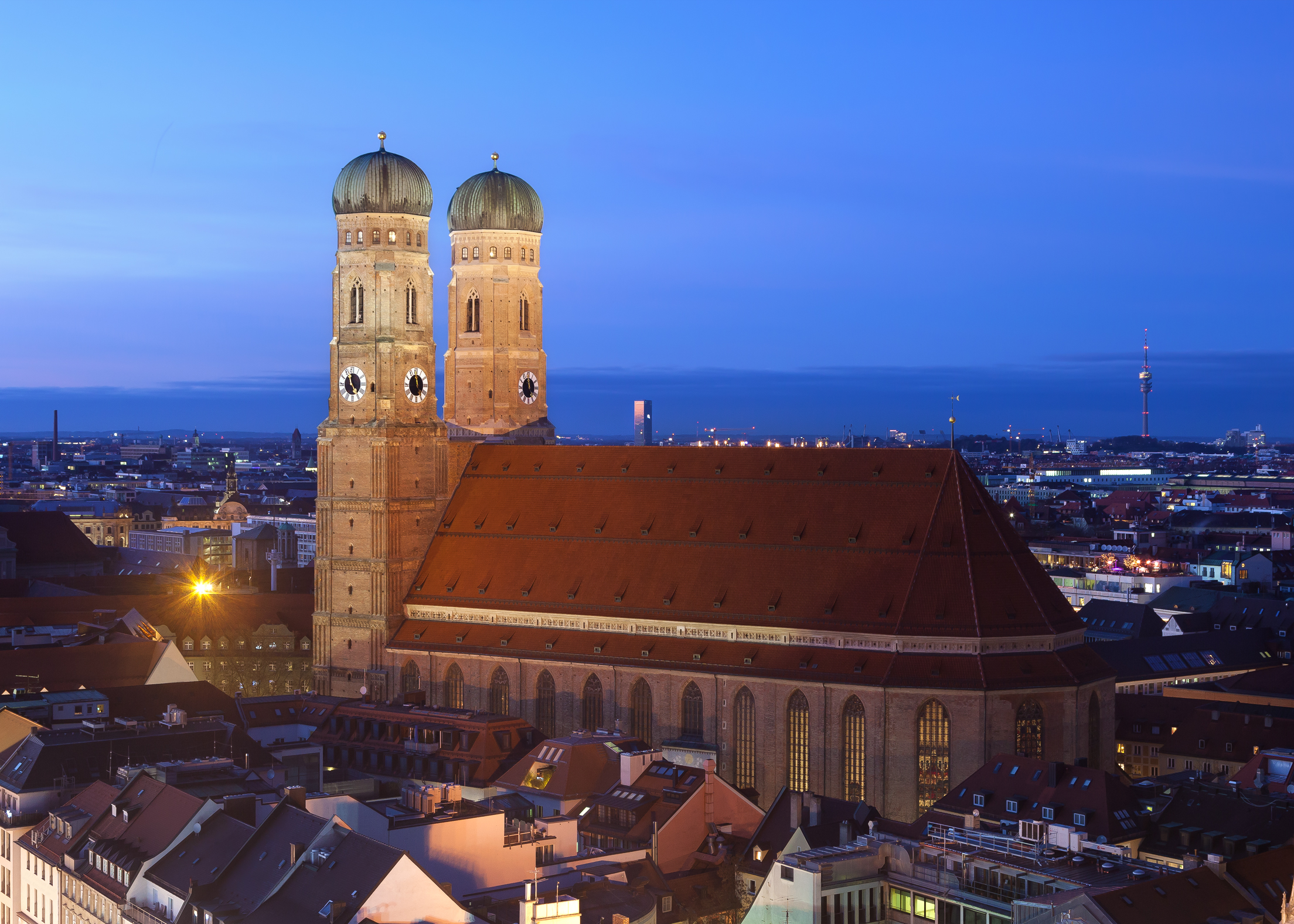 Frauenkirche in Munich, Germay